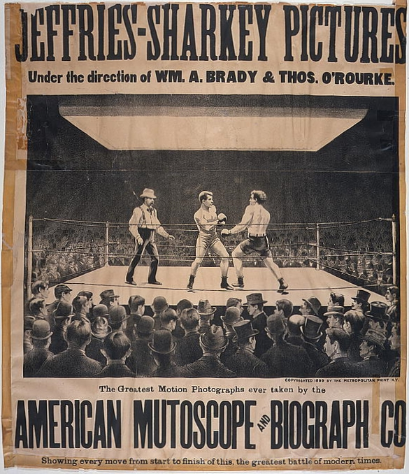 Jeffries-Sharkey pictures - under the direction of Wm. A. Brady & Thos. O'Rourke. Early motion picture poster showing scene from the boxing match between James J. Jeffries and Tom Sharkey on November 3, 1899. Caption continues: The greatest motion photographs ever taken by the American Mutoscope and Biograph Co. Showing every move from start to finish of this, the greatest battle of modern times.